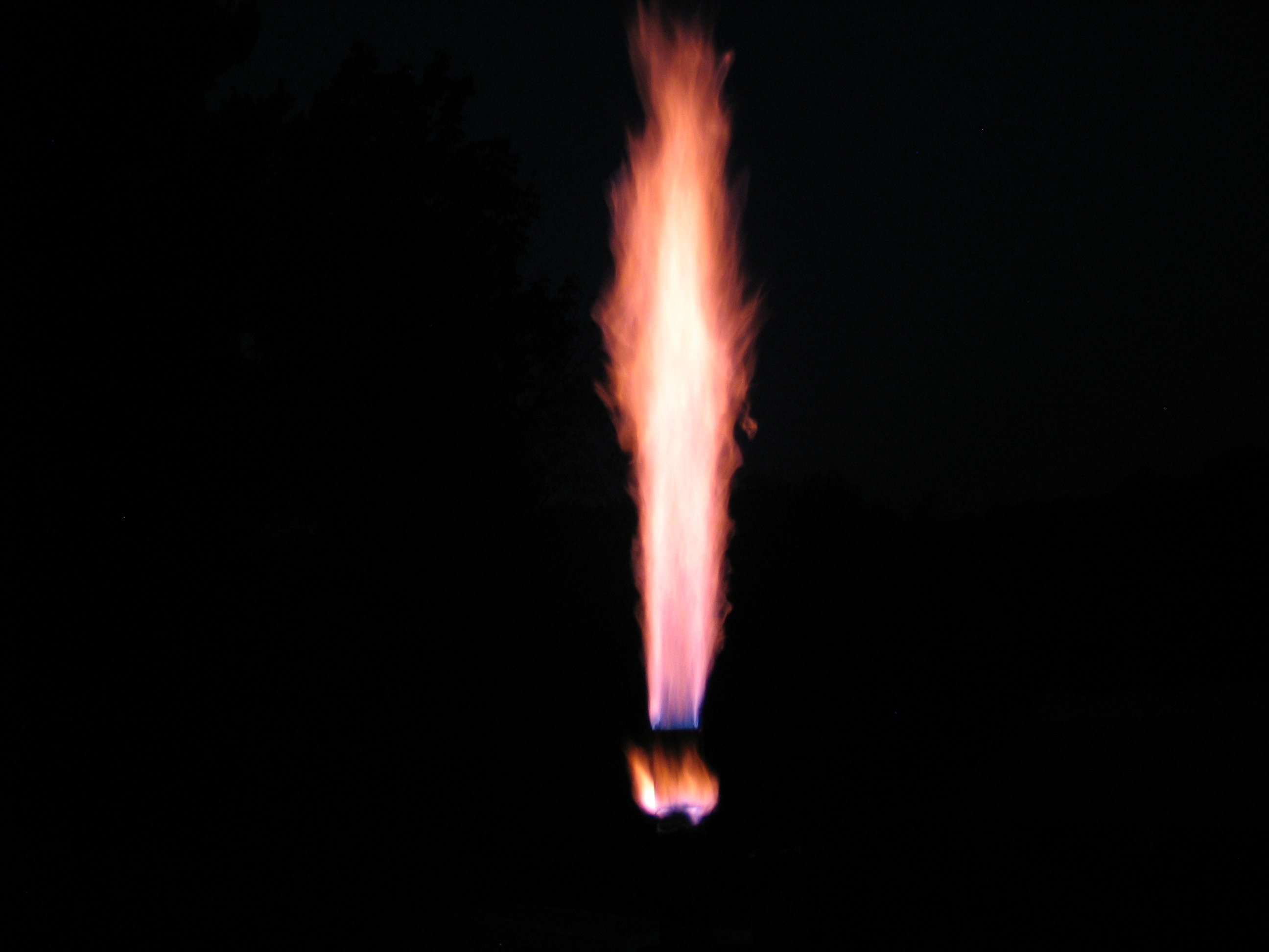 This is an example of a wood gas flame. This gas is rich in hydrogen and carbon monoxide.